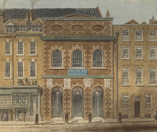 The Italian Opera House, built by John Vanbrugh, at the Haymarket before it was destroyed by a fire on 17 June 1789: this work of art was earlier published in Charles John Smith's Historical and Literary Antiquities,[1] Messrs Bernard Quaritch, Ltd.[2] The book and print was republished as: Smith, Charles John (1875) Historical and Literary Curiosities, London: Chatto and Windus, Piccadilly, pp. Plate 97 Retrieved on 10 February 2011.